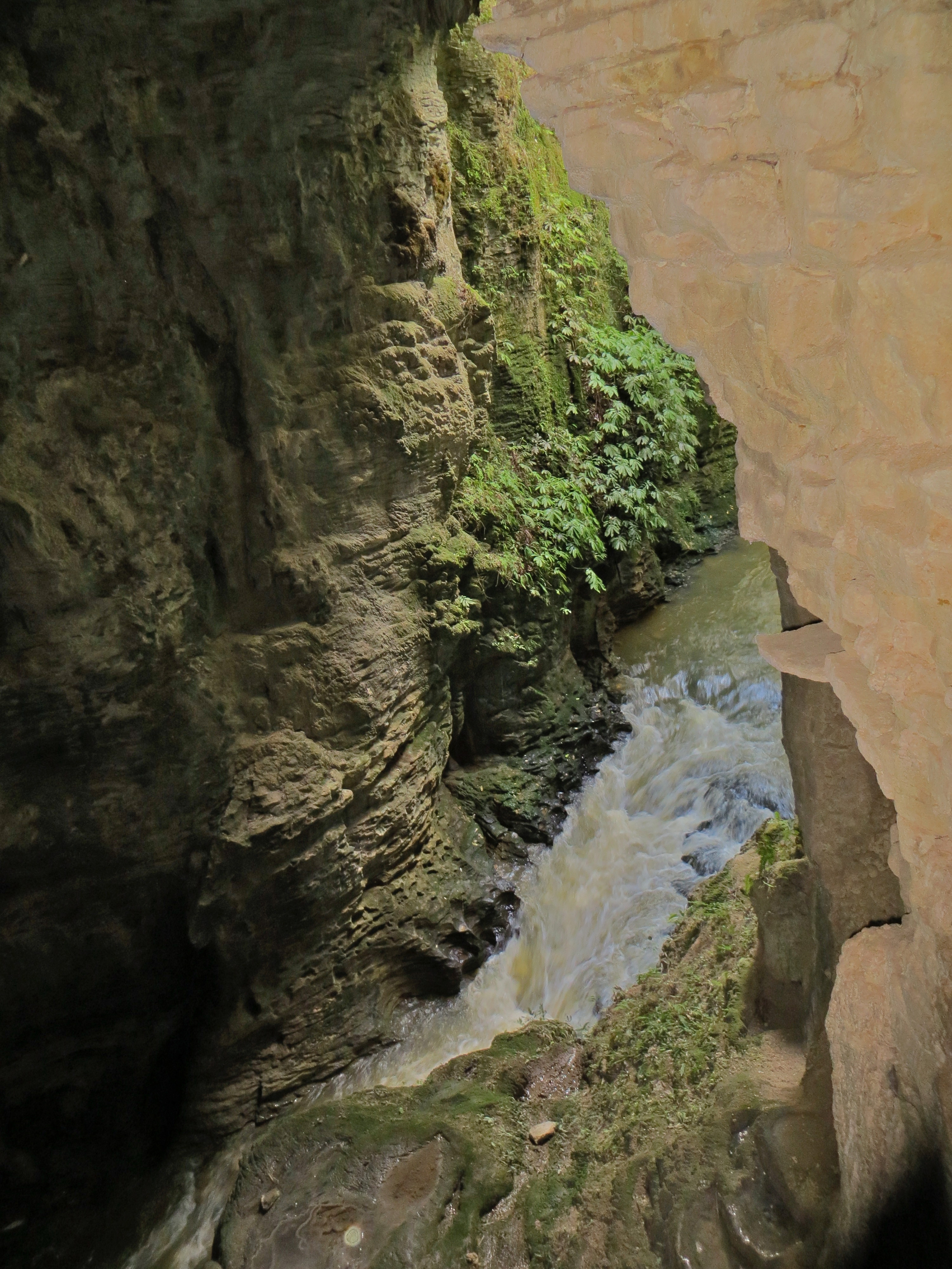 Waitomo Stream entering Ruakuri Caves